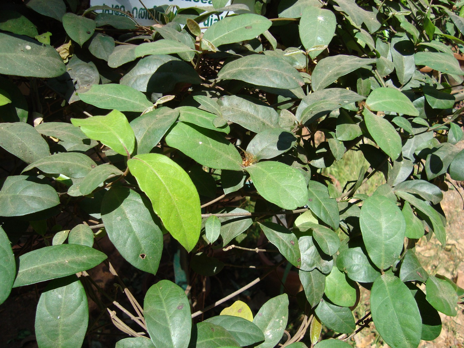 black creeper, in Thrissur, Kerala, India